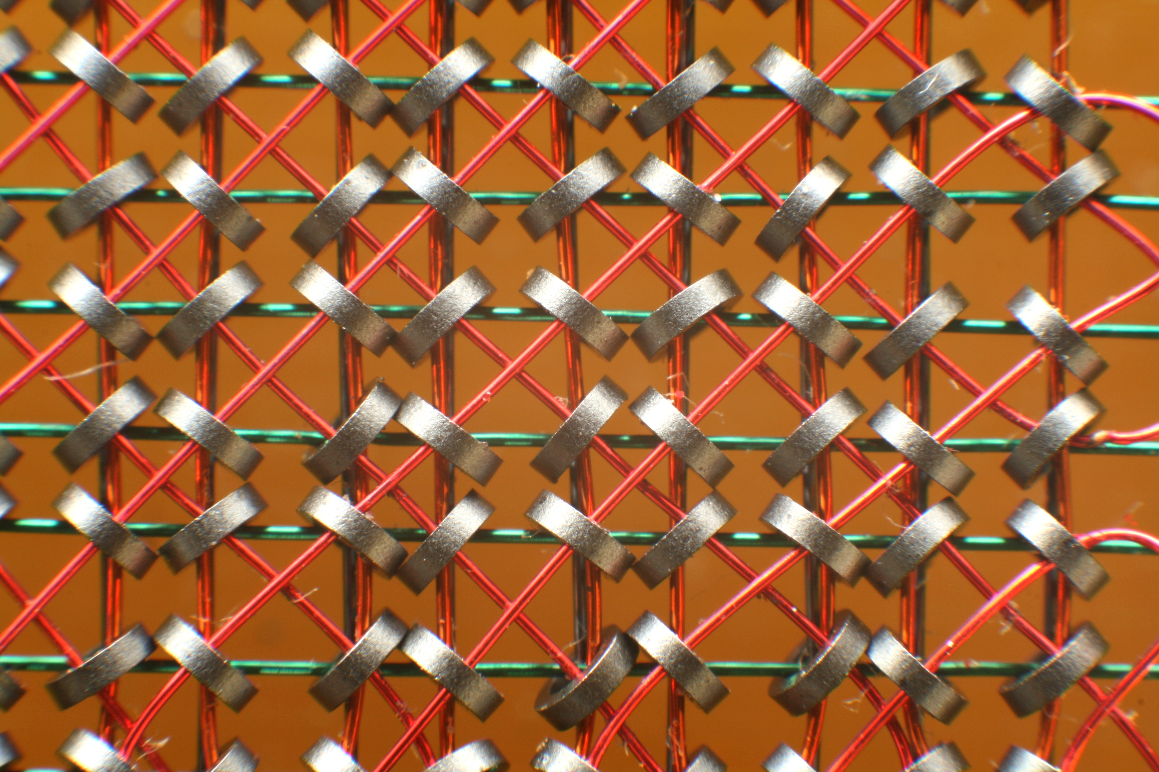 Core Memory Module (Macro 2)